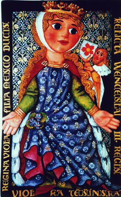 Viola Elisabeth of Cieszyn by woodcutter Jarmila Haldová.